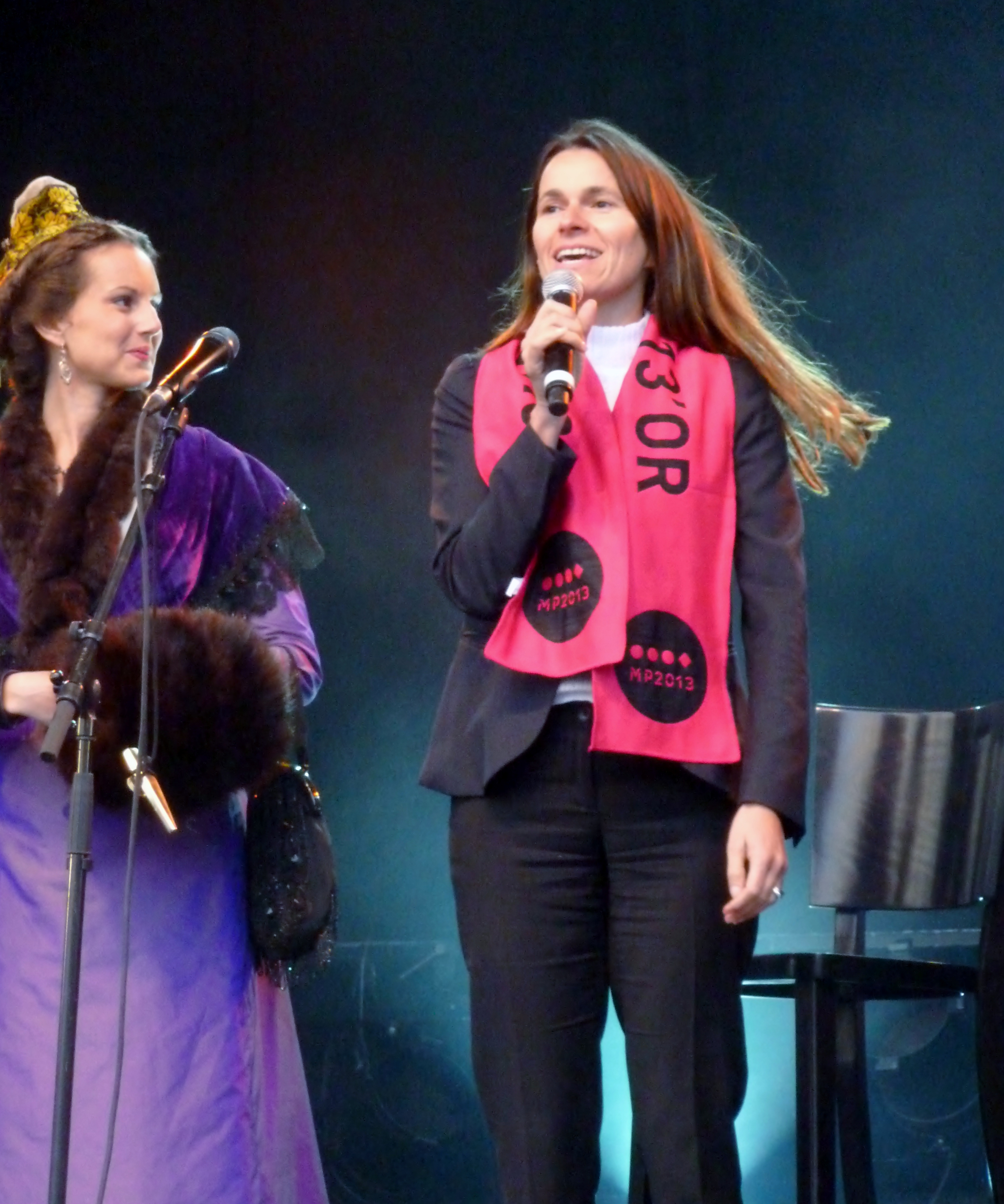 Opening Marseille-Provence 2013, Arles (13), France. 13.01.2013 / Aurélie Filippetti